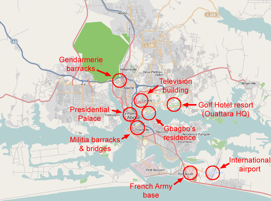 Map of Abidjan with key locations marked This map may be incomplete, and may contain errors. Don't rely solely on it for navigation.